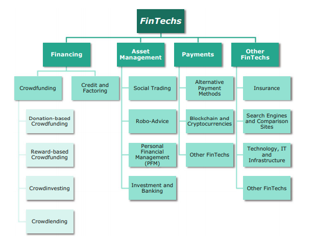 FinTech Segments